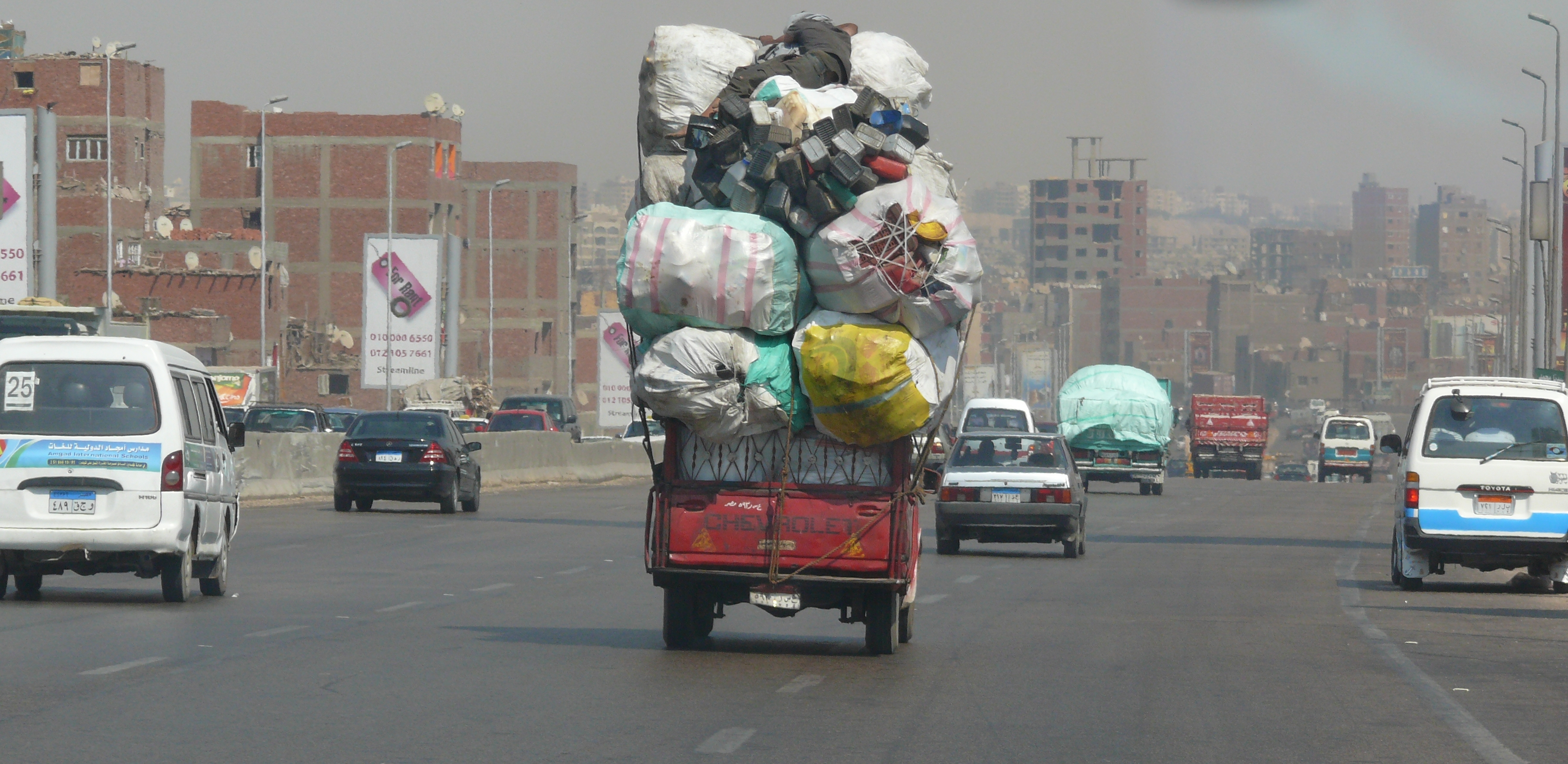 Cairo ring road